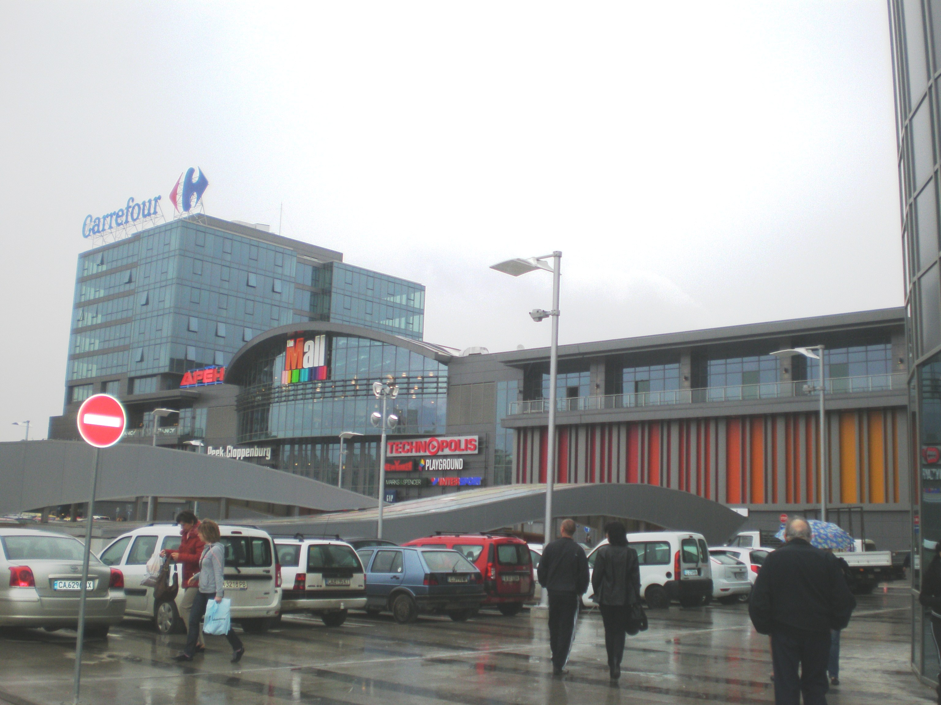 The Mall - Sofia, Bulgaria